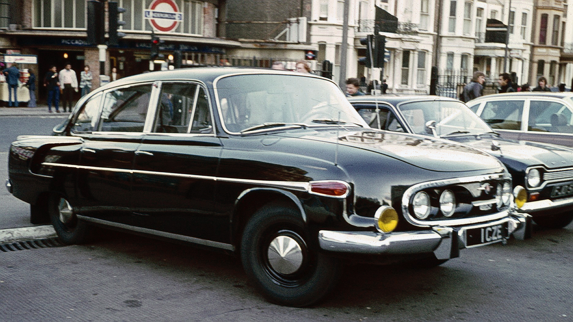 Tatra T603 in Earls Court, West-London. The car is parked close to Earls Court Exhibition Centre, Warwick Road can be seen behind it and the West Entrance to Earl's Court tube station